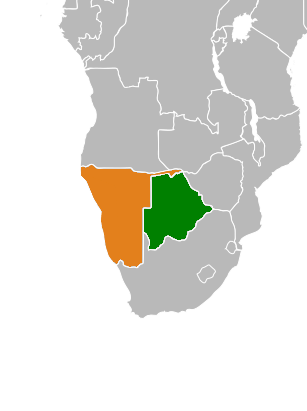 Blank map of Africa iThe source code of this SVG is valid.